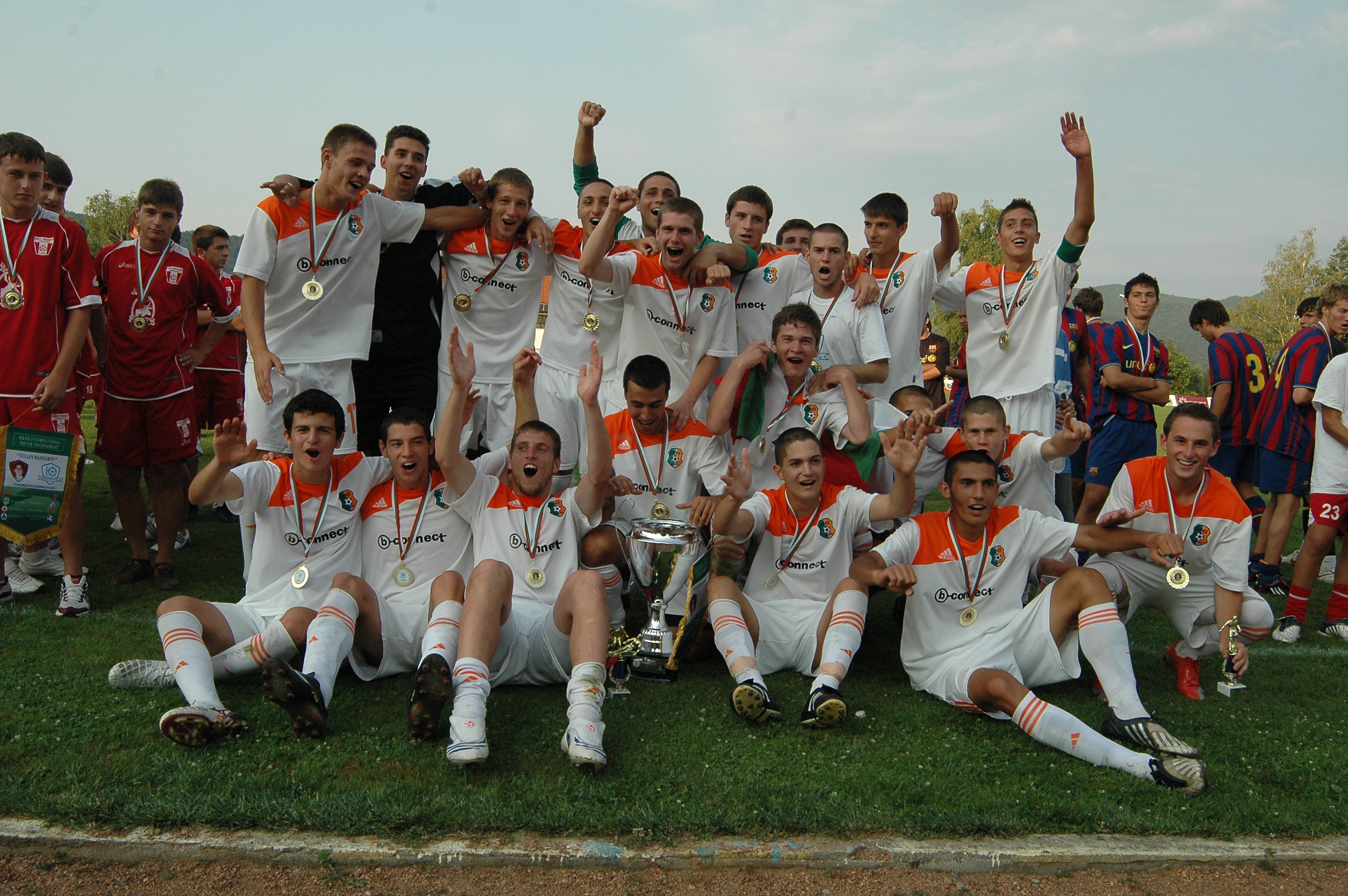 PFC Litex Lovech (Yulian Manzarov Winter Cup 2009)